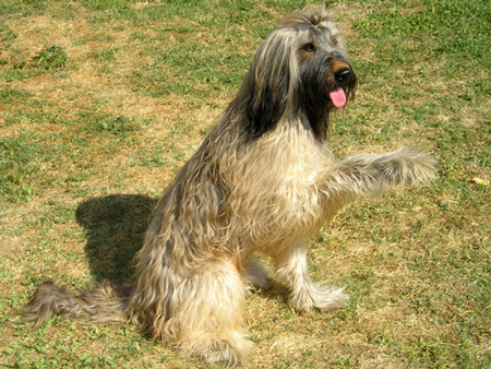 Briard at Elk Grove, CA. This is Ricochet, an accomplished dog agility competitor, whose bangs are tied up to keep them out of his way while negotating agility courses at high speed. She has natural ears rather than the cropped ears that are still popular.